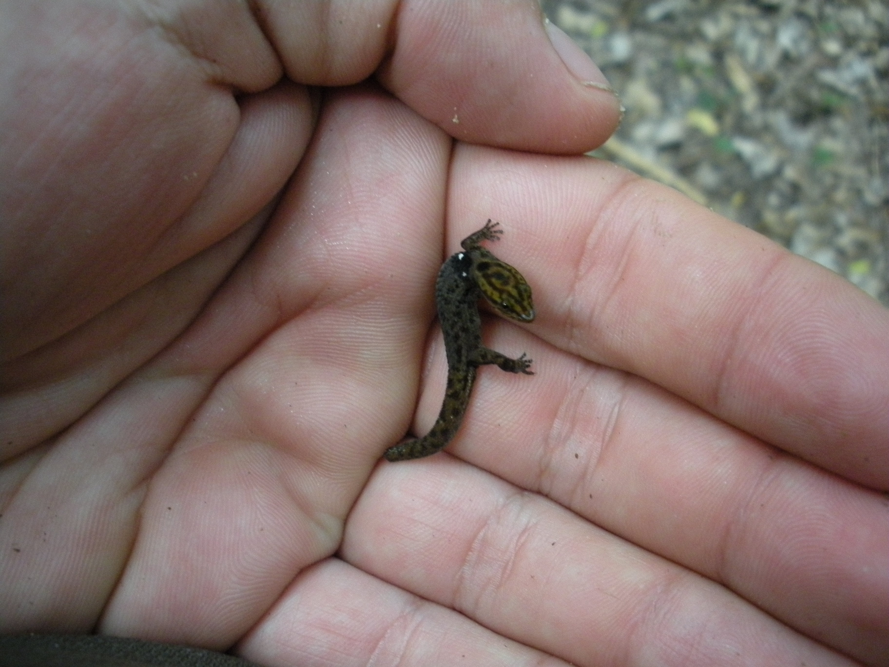 Sphaerodactylus macrolepis found in Jobos Bay National Estuarine Research Researve, Aguirre, Puerto Rico